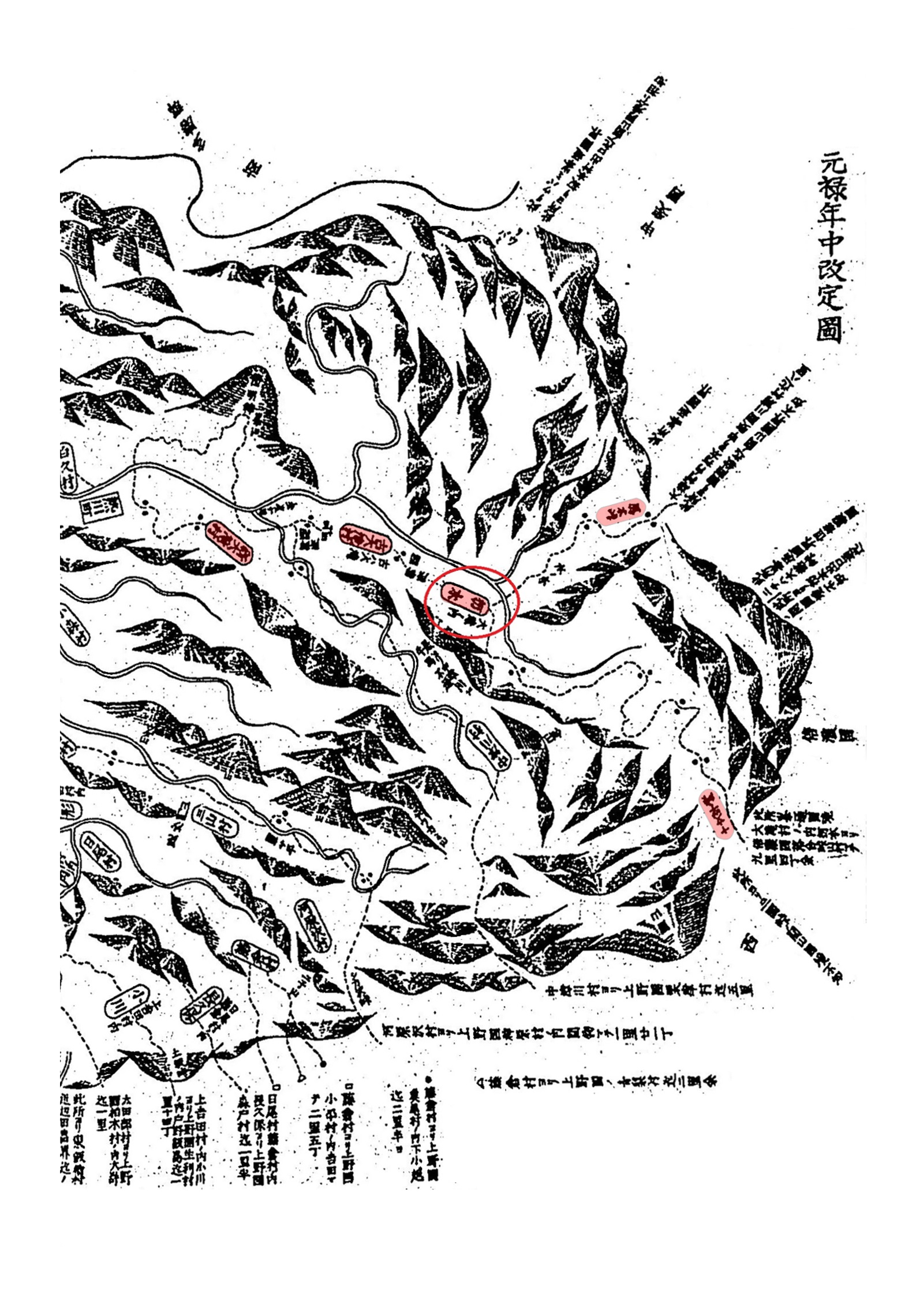 National Diet Library Digital Collection This image is available from the website of the National Diet Library This tag does not indicate the copyright status of the attached work. A normal copyright tag is still required. See Commons:Licensing. English | 日本語 | +/− 蔵風土記稿より。